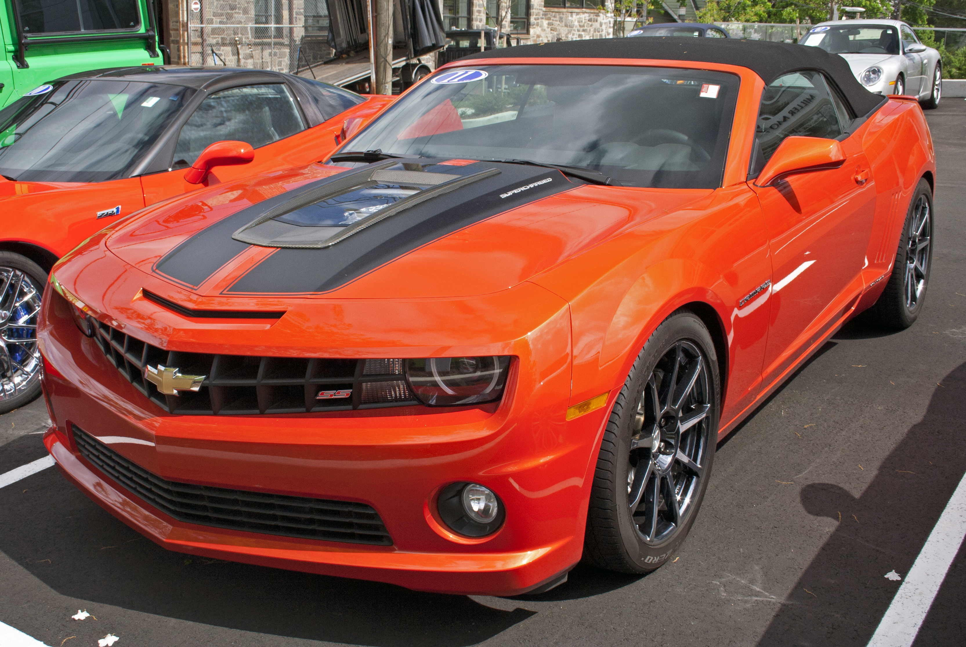 2011 Callaway Camaro SS SC572 Supercharged Convertible, six-speed manual.